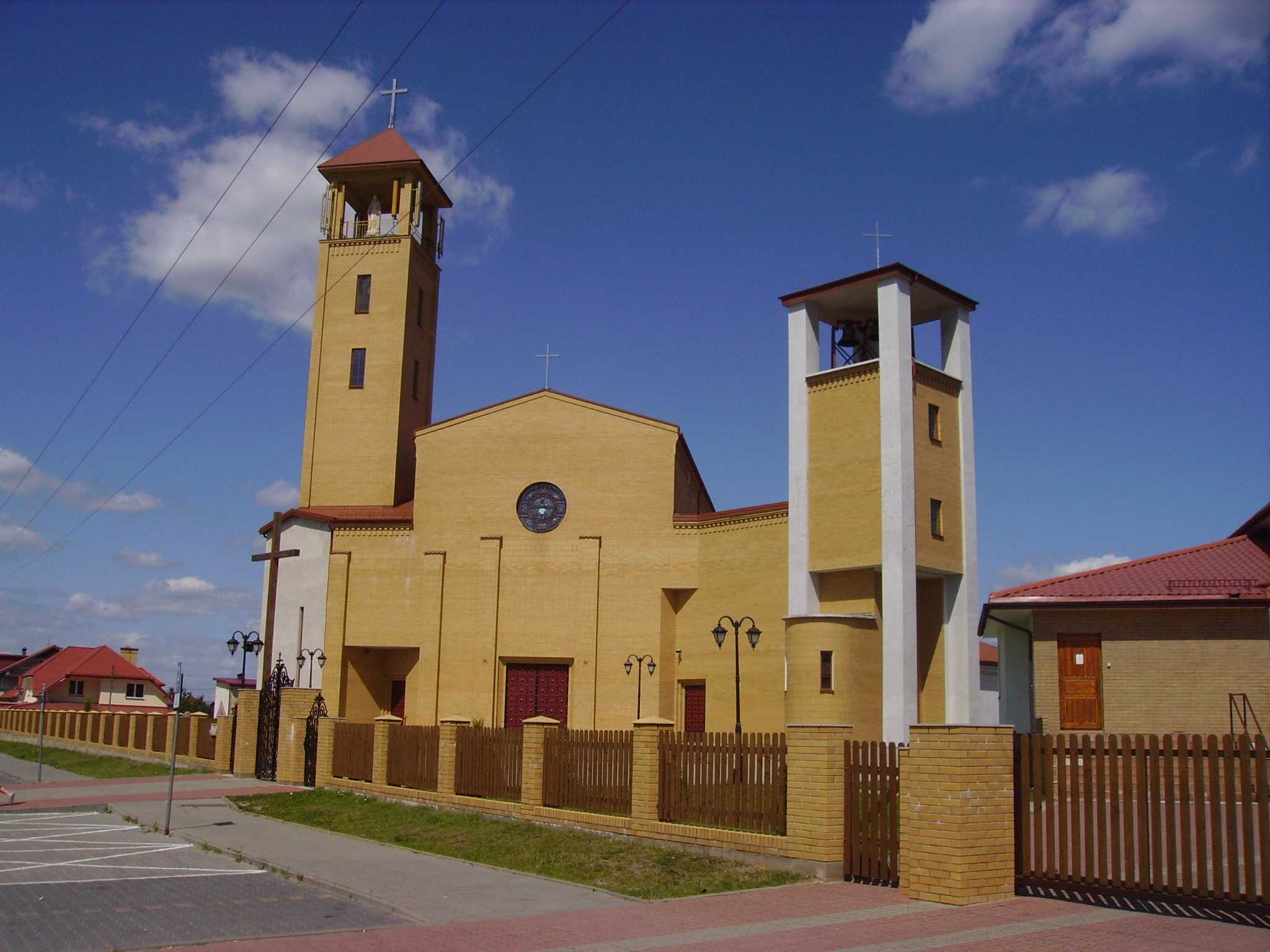 Church of Saint Albert Chmielowski in Mońki